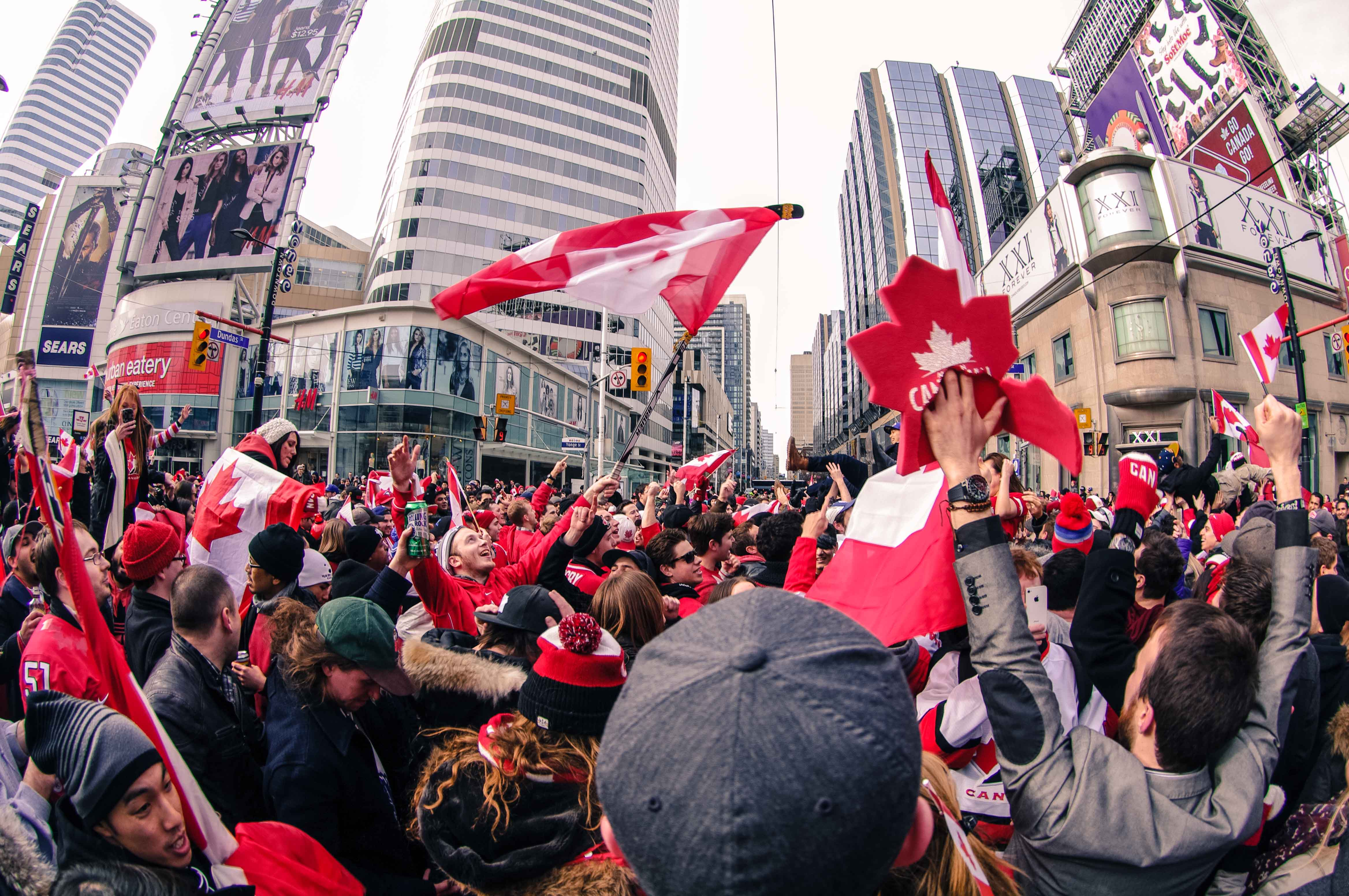 Celebrating men's ice hockey Olympic Gold 2014 in Toronto.